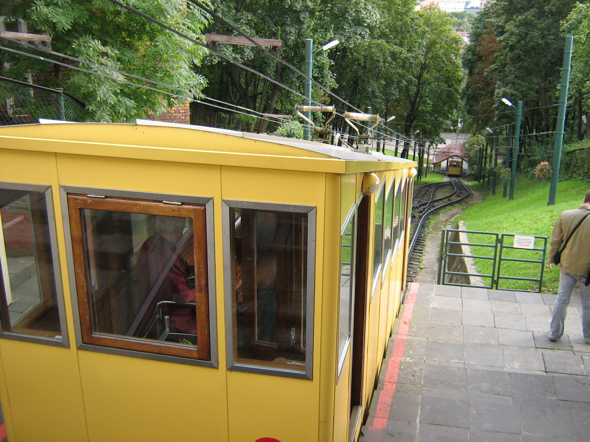 Žaliakalnis Funicular railway from above, Kaunas.